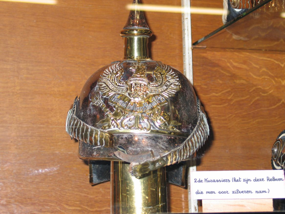 Silver helmet.